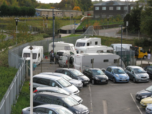 Travellers in Coulsdon A small group of caravans has arrived and parked, probably illegally, on a small car park just to the south of Smitham station, from whose footbridge this photograph was taken.